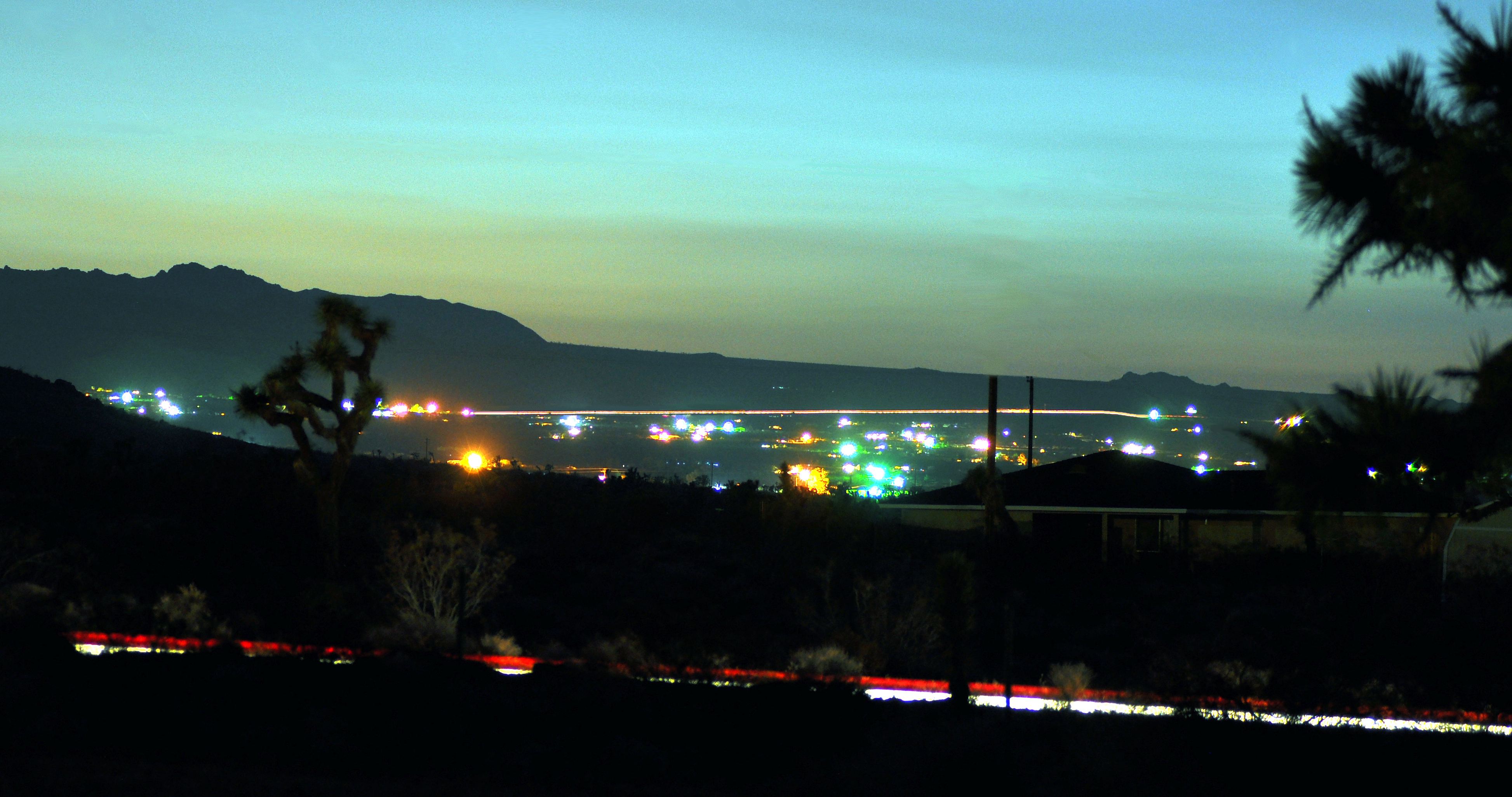 Long exposure of Dusk in in Landers, California, in the Mojave Desert, USA